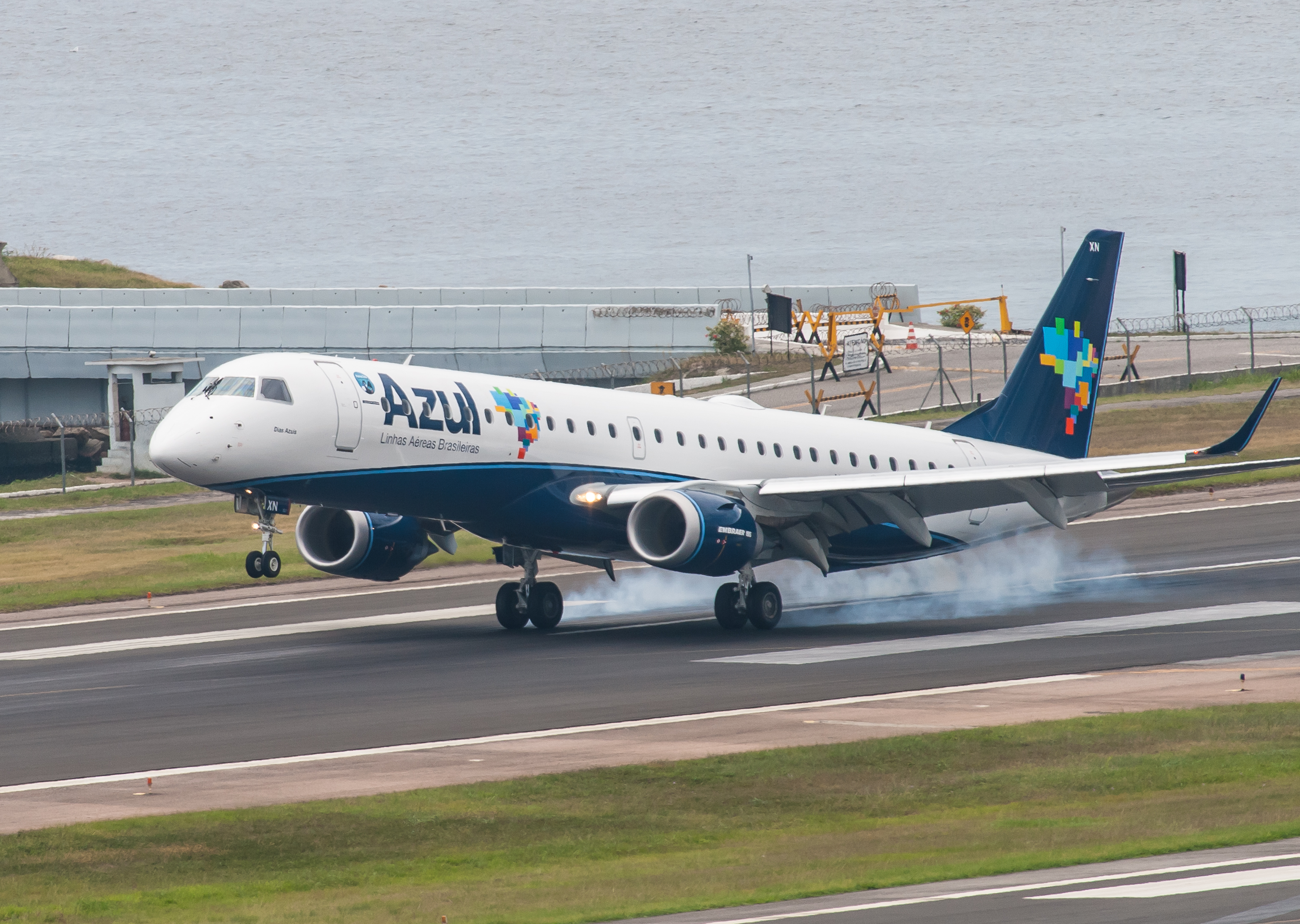 Embraer 195 (PR-AXN) of Azul Linhas Aéreas Brasileiras at Santos Dumont Airport